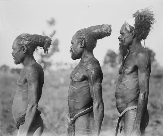 Men displaying different methods of dressing their hair (Cambridge Gulf, Western Australia).